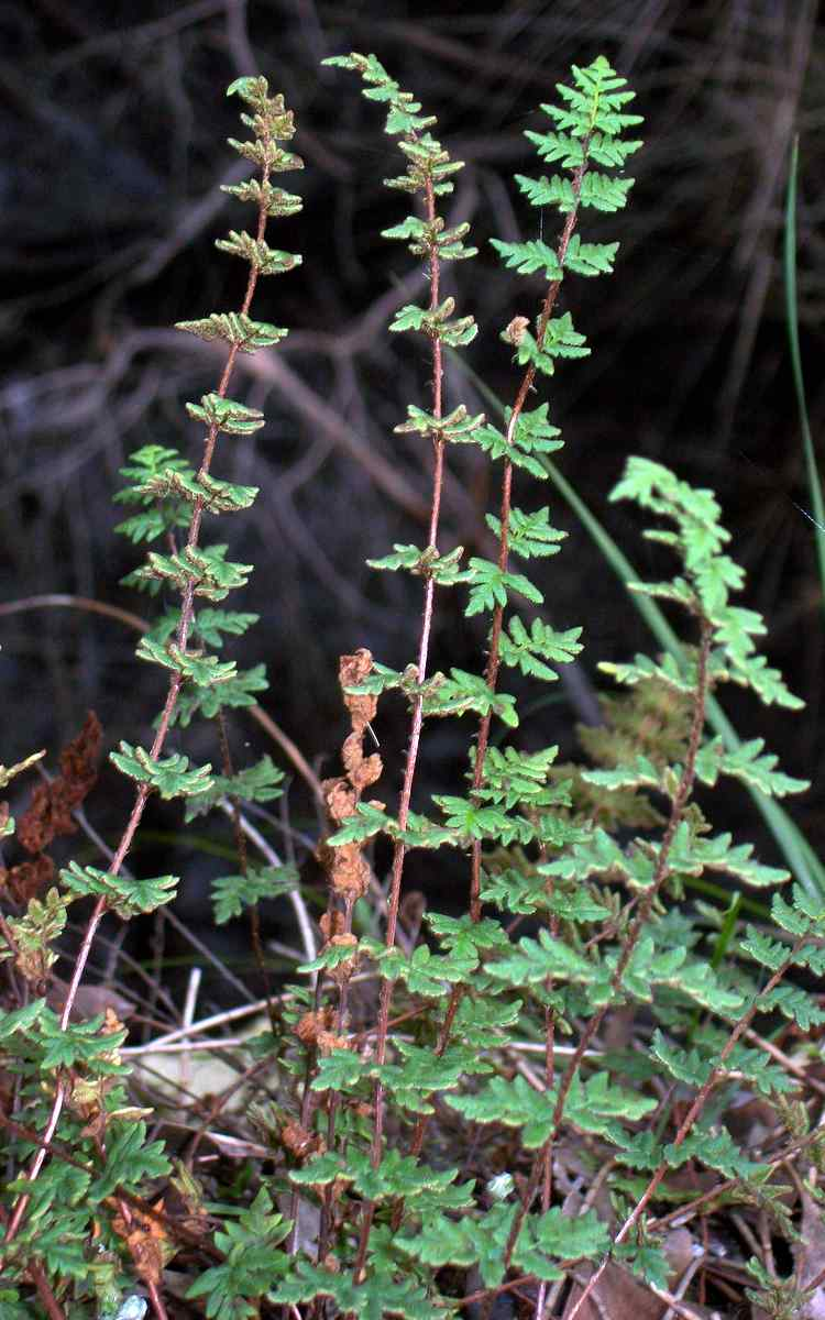 Cheilanthes fern growing on exposed Hawkesbury Sandstone in full sunshine, next to the Lane Cove River, Australia. probably Cheilanthes sieberi